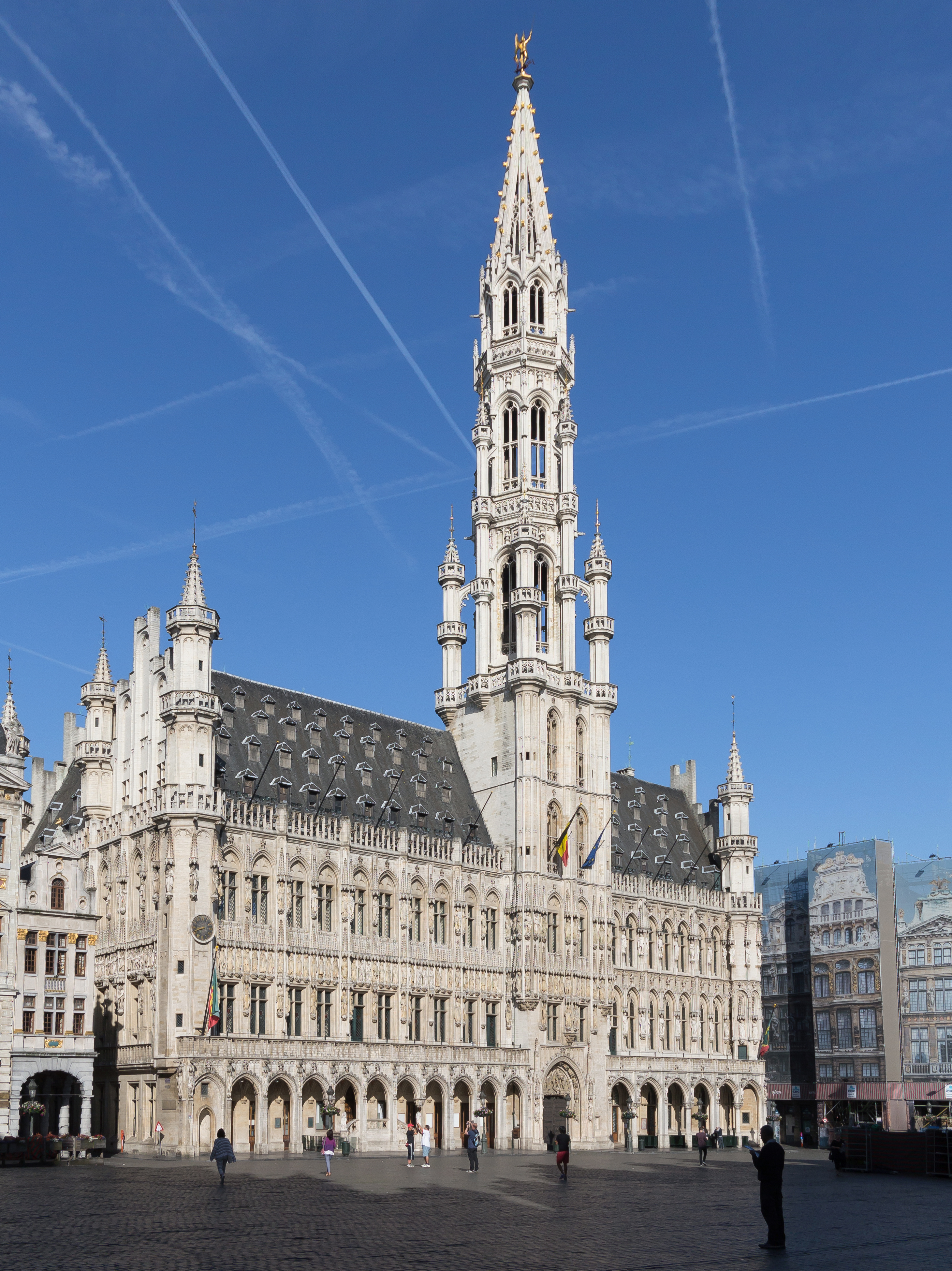 Brussels, townhall